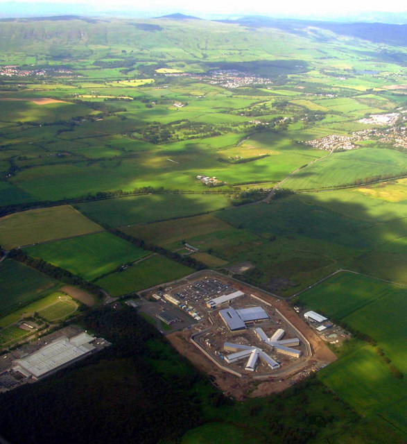 HMP Low Moss from the air